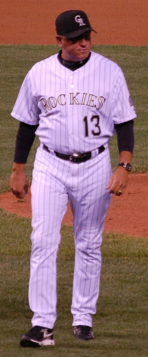 Clint Hurdle walking back to the dugout. Clint Hurdle (1975) was the first player drafted by the Royals in the first round from Florida, a state which has produced seven first-rounders for the Royals overall. DateSourceOwn workAuthorOnetwo1 (talk) 05:04, 10 May 2008 . . Onetwo1 . . 491×1,178 (157 KB)